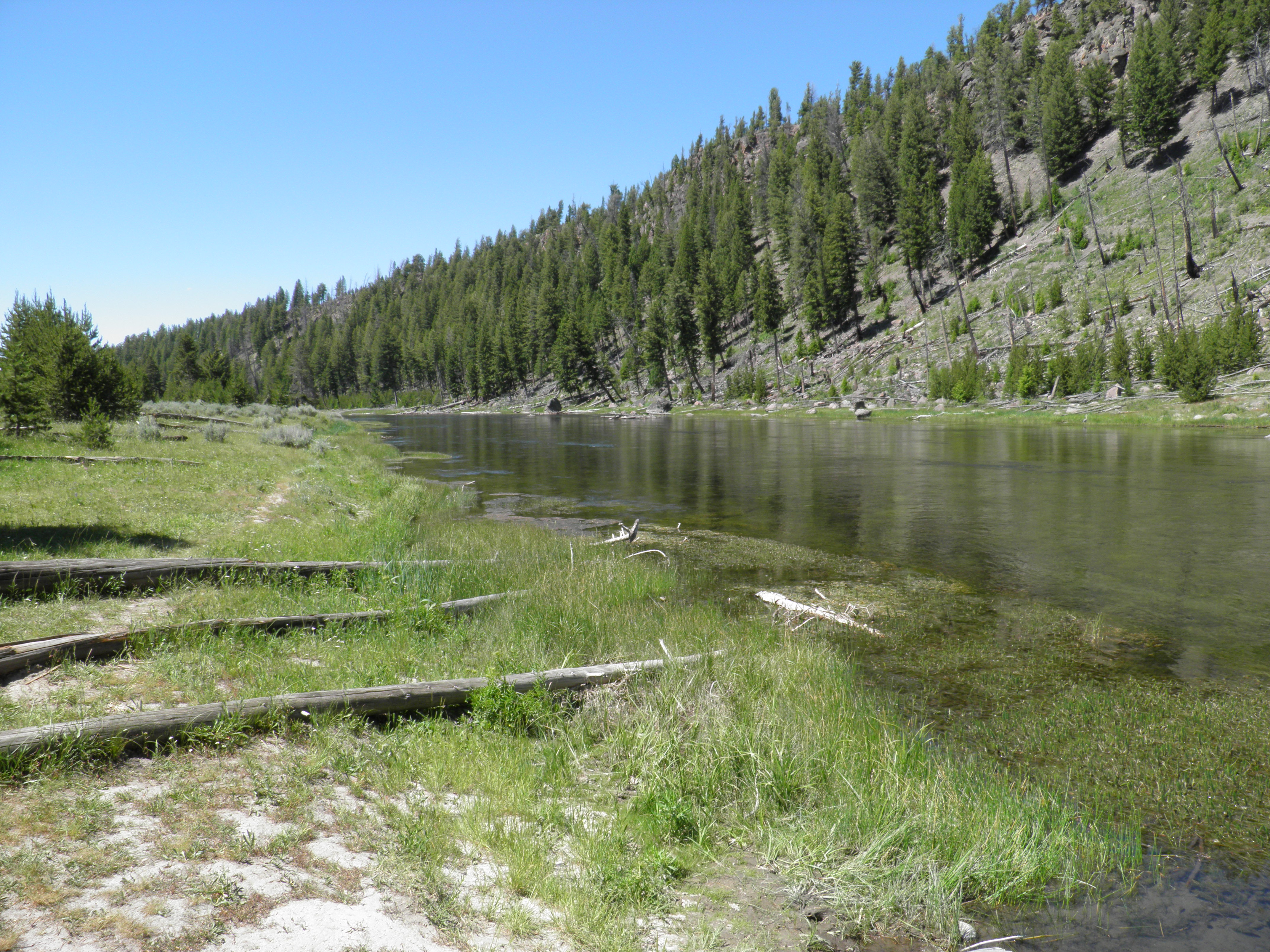 Madison River in Yellowstone National Park, Wyoming, USA.